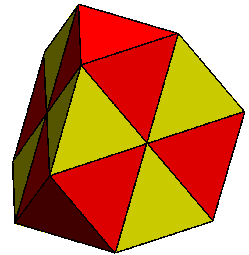 Example of deltahedron which not strictly convex: it is a triangulated truncated tetrahedron